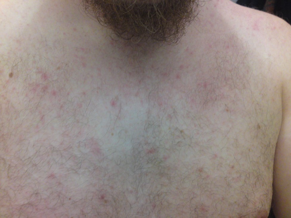 Mild case of miliaria rubra, also called heat rash, showing the typical red spots on chest, neck and shoulders.